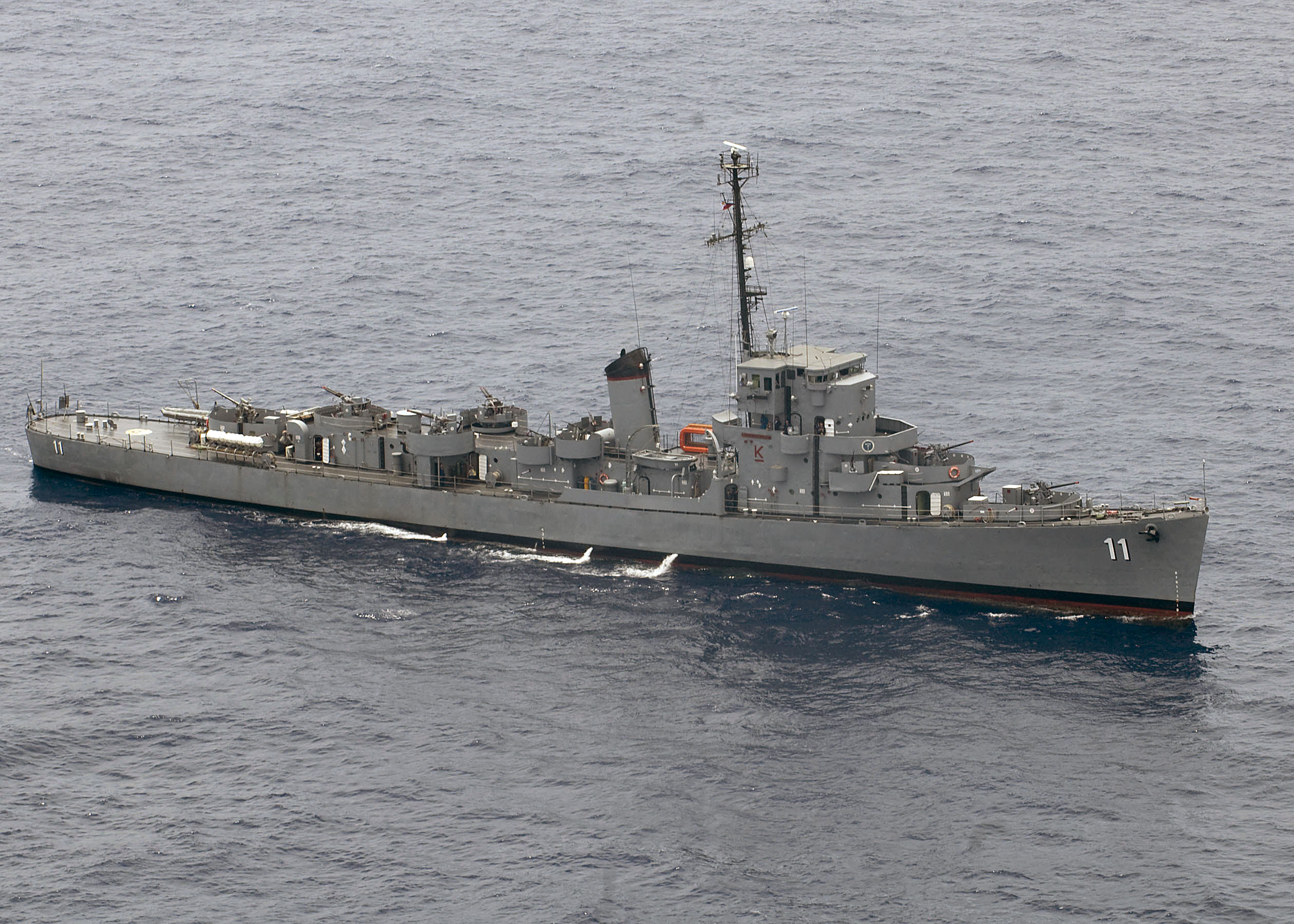 090421-N-9950J-062 SOUTH CHINA SEA (April 21, 2009) The Armed Forces of the Philippines Navy destroyer escort BRP Rajah Humabon (PF 11) steams ahead during an exercise with the forward-deployed amphibious assault ship USS Essex (LHD 2) and the amphibious dock landing ship USS Tortuga (LSD 46), as part of exercise Balikatan 2009 (BK09).